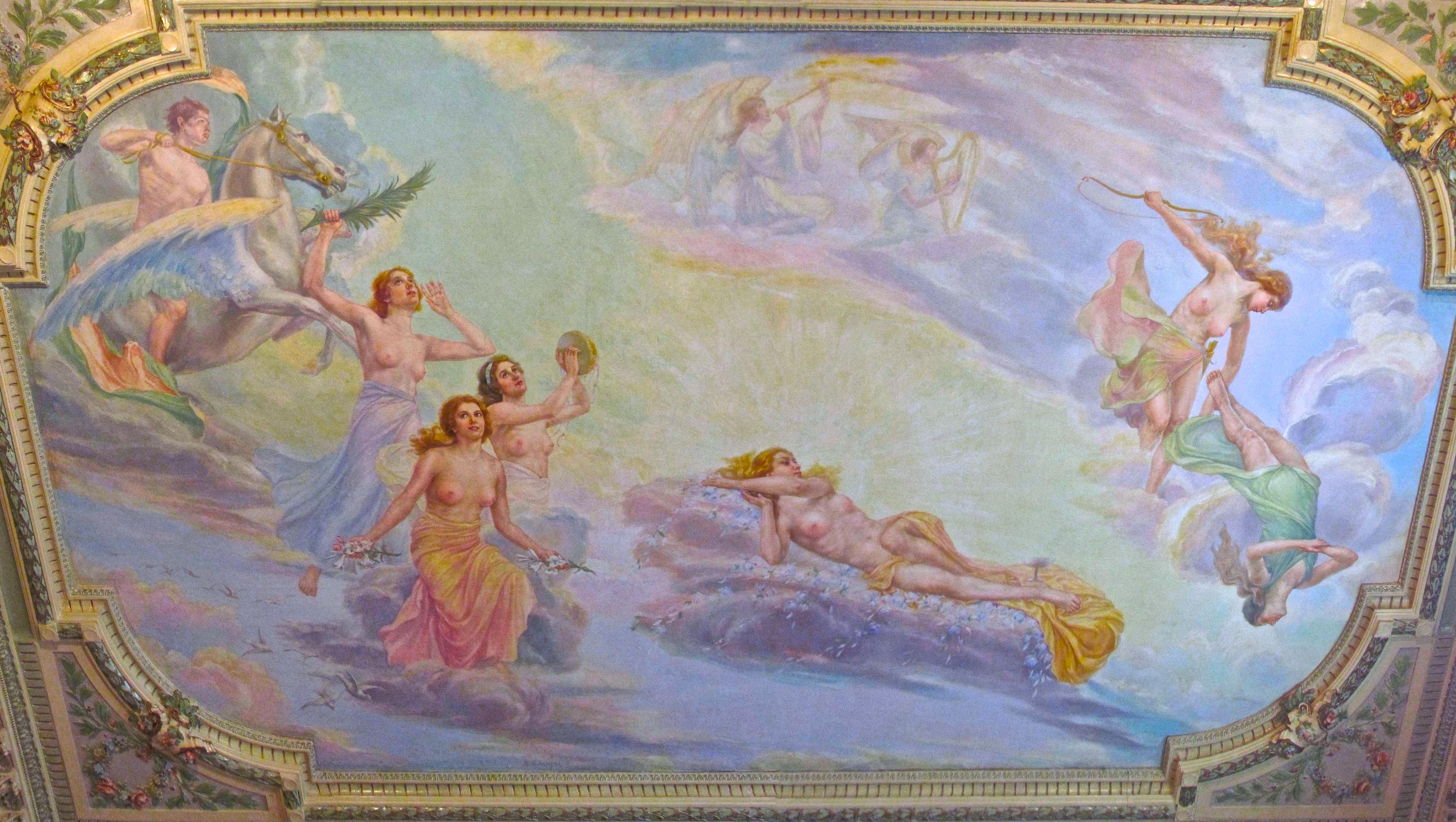 Painted ceiling by Guido Nincheri, Ladies' sitting room or Lounge (East wall), Oscar Dufresne House (Château Dufresne), 4040 Sherbrooke Street East, Montreal, Quebec, Canada.